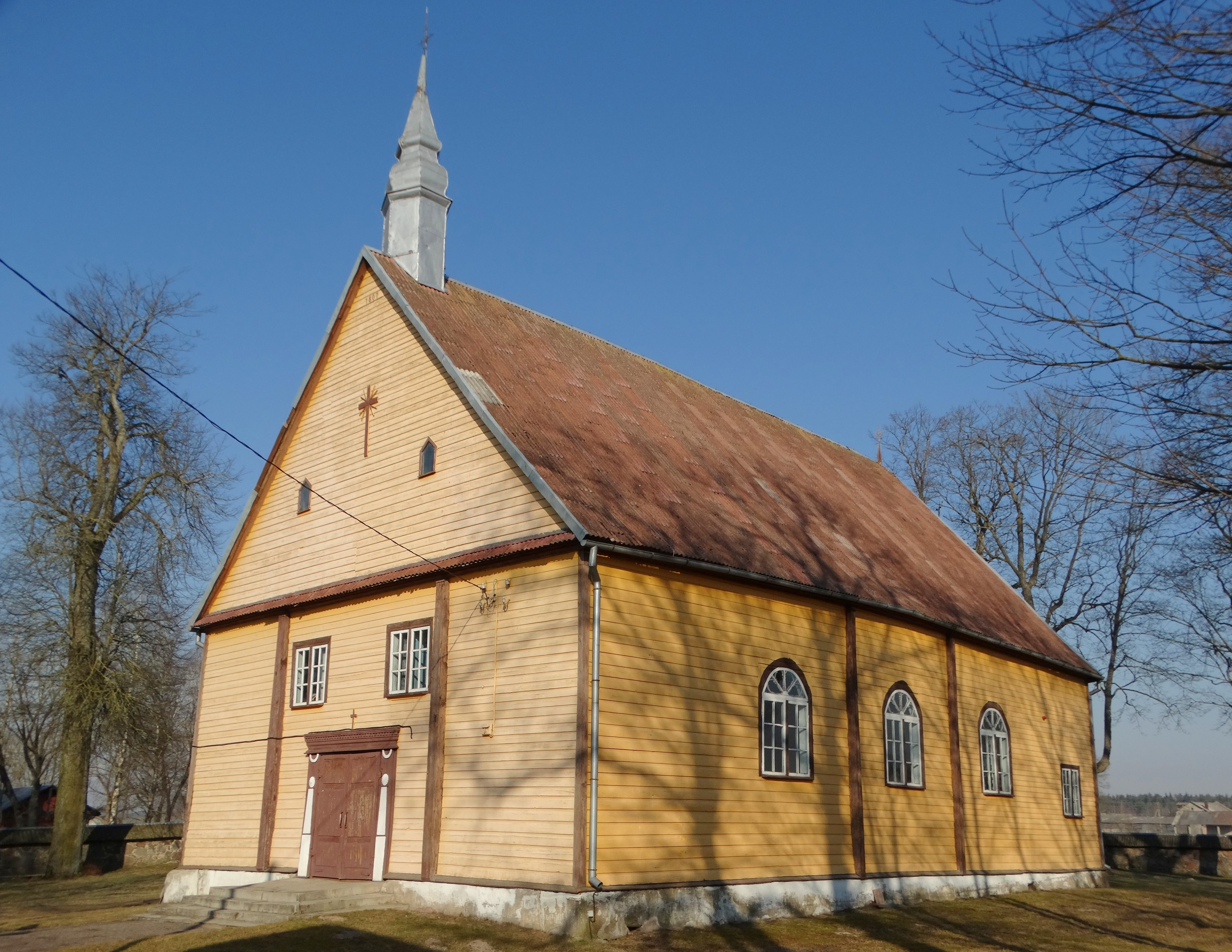 Roman Catholic Church, Upyna, Telšiai district, Lithuania